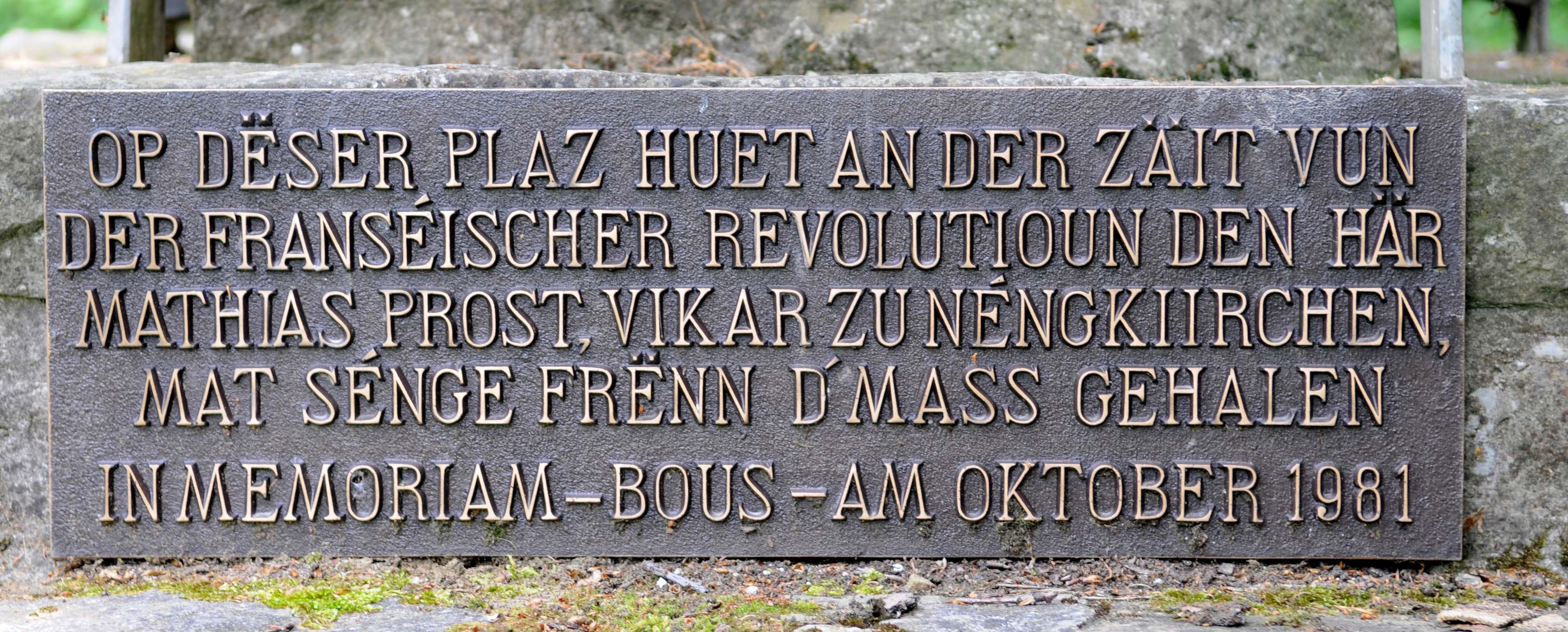 Luxembourg, commune of Bous: Plaque in 'Buusserbësch'.